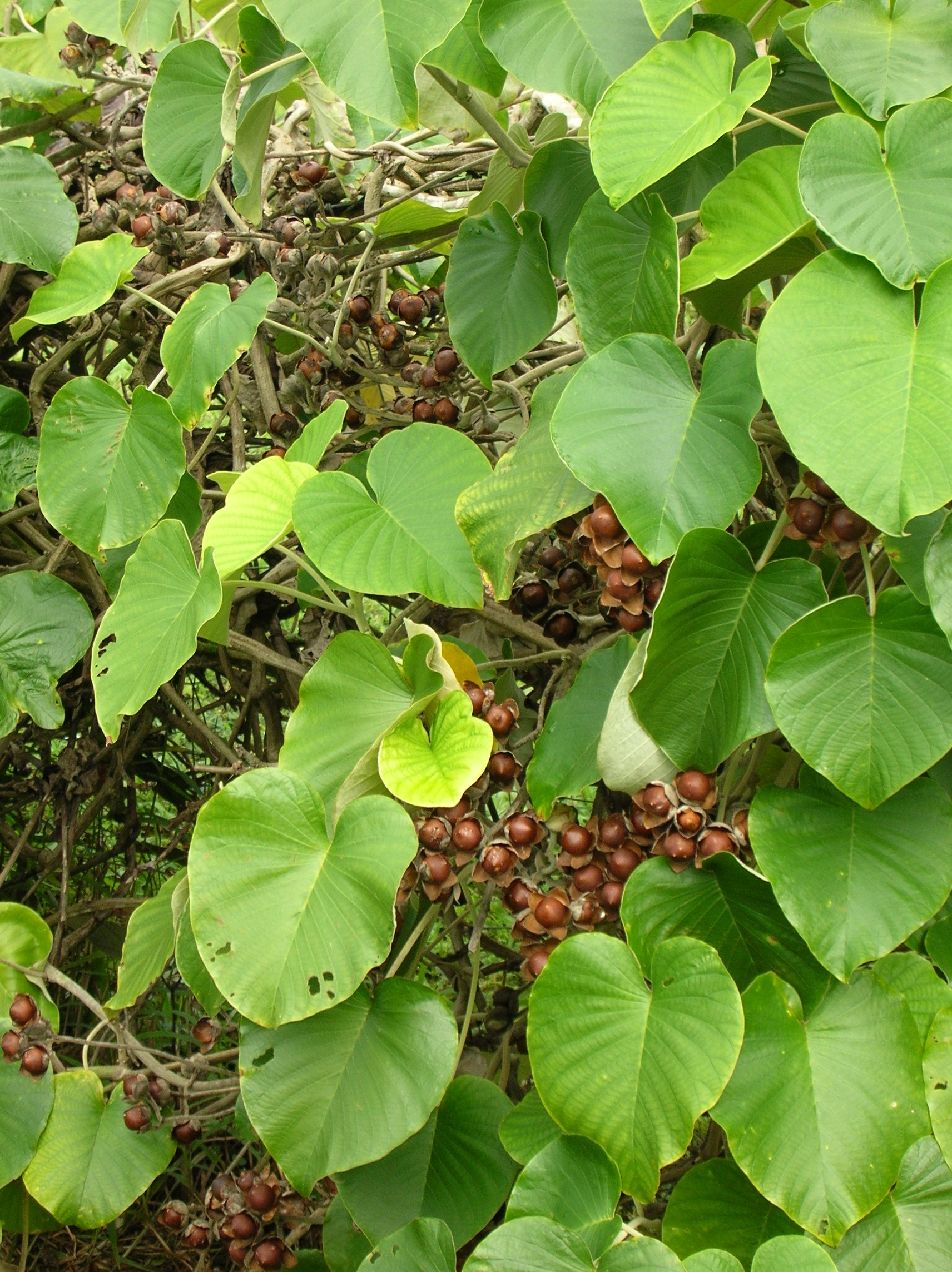 Argyreia nervosa (fruit). Location: Maui, Hana Hwy Kailua